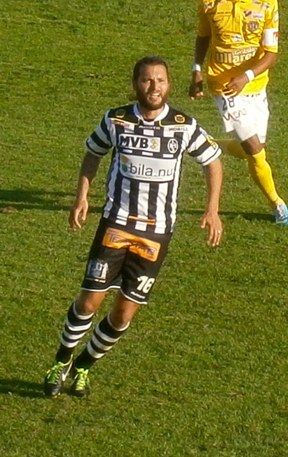 Patrik Åström playing for Landskrona BoIS in a match against Falkenbergs FF.